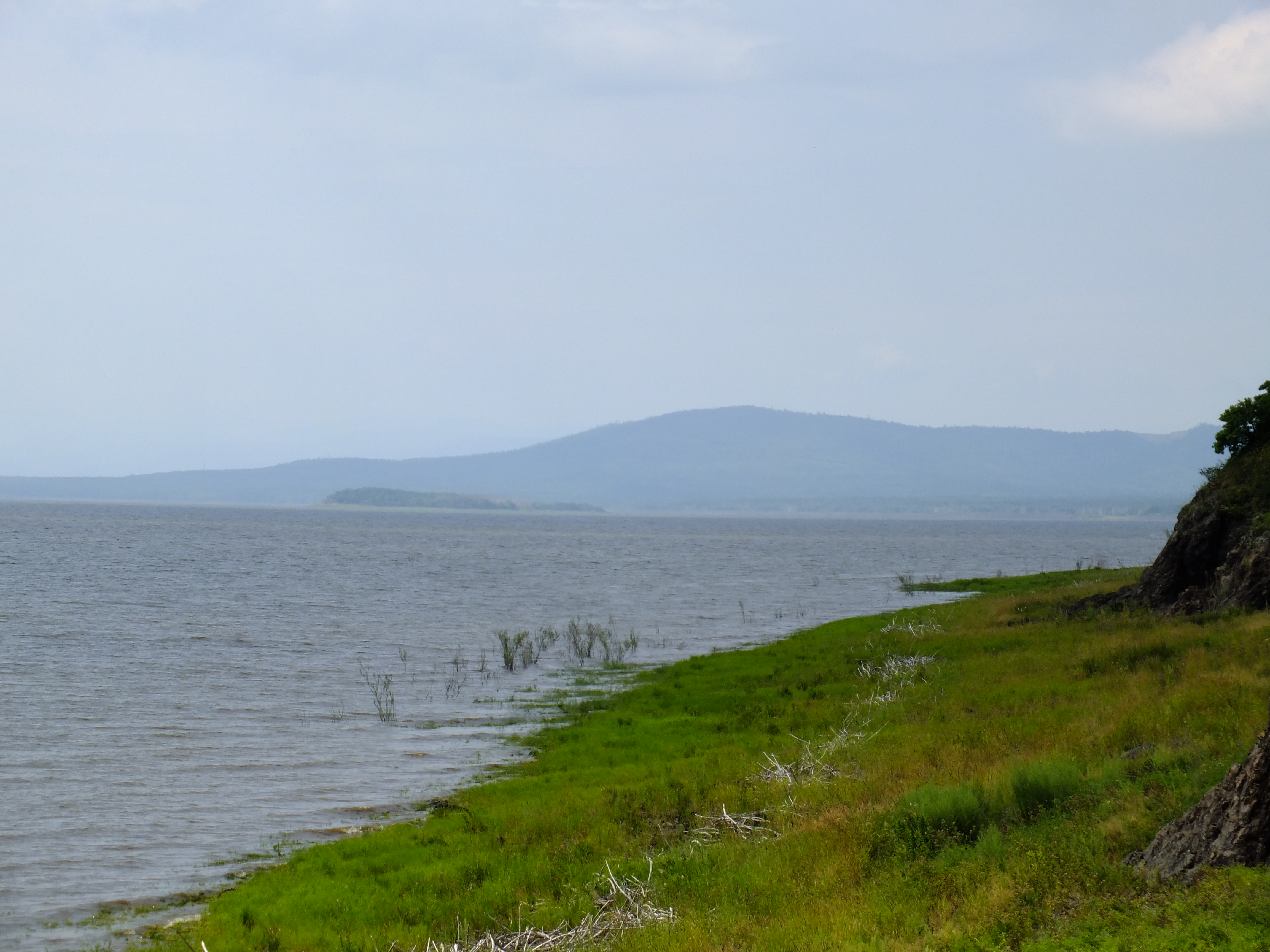 Lake Bolon